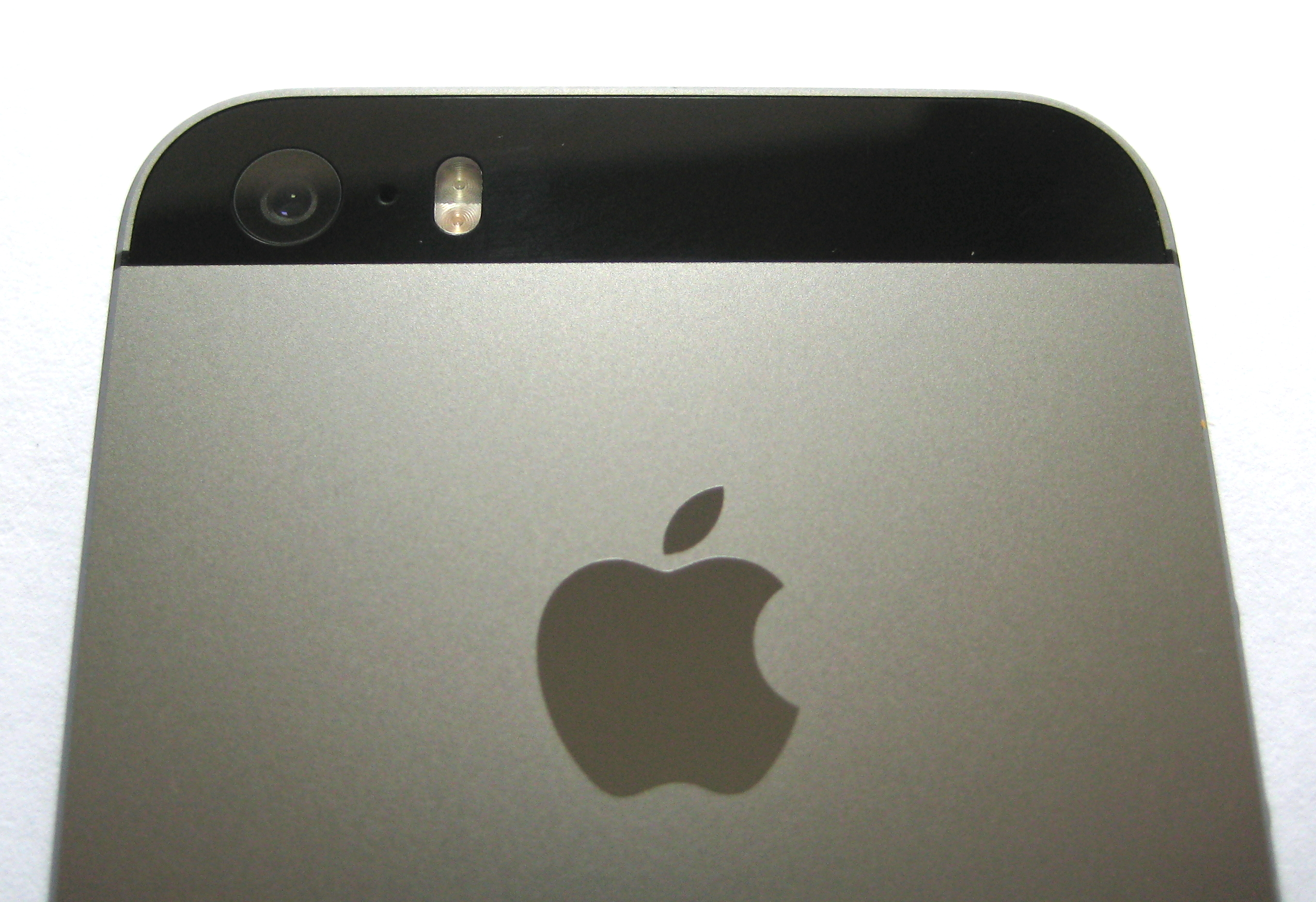 iPhone 5S, camera lens and true tone flash